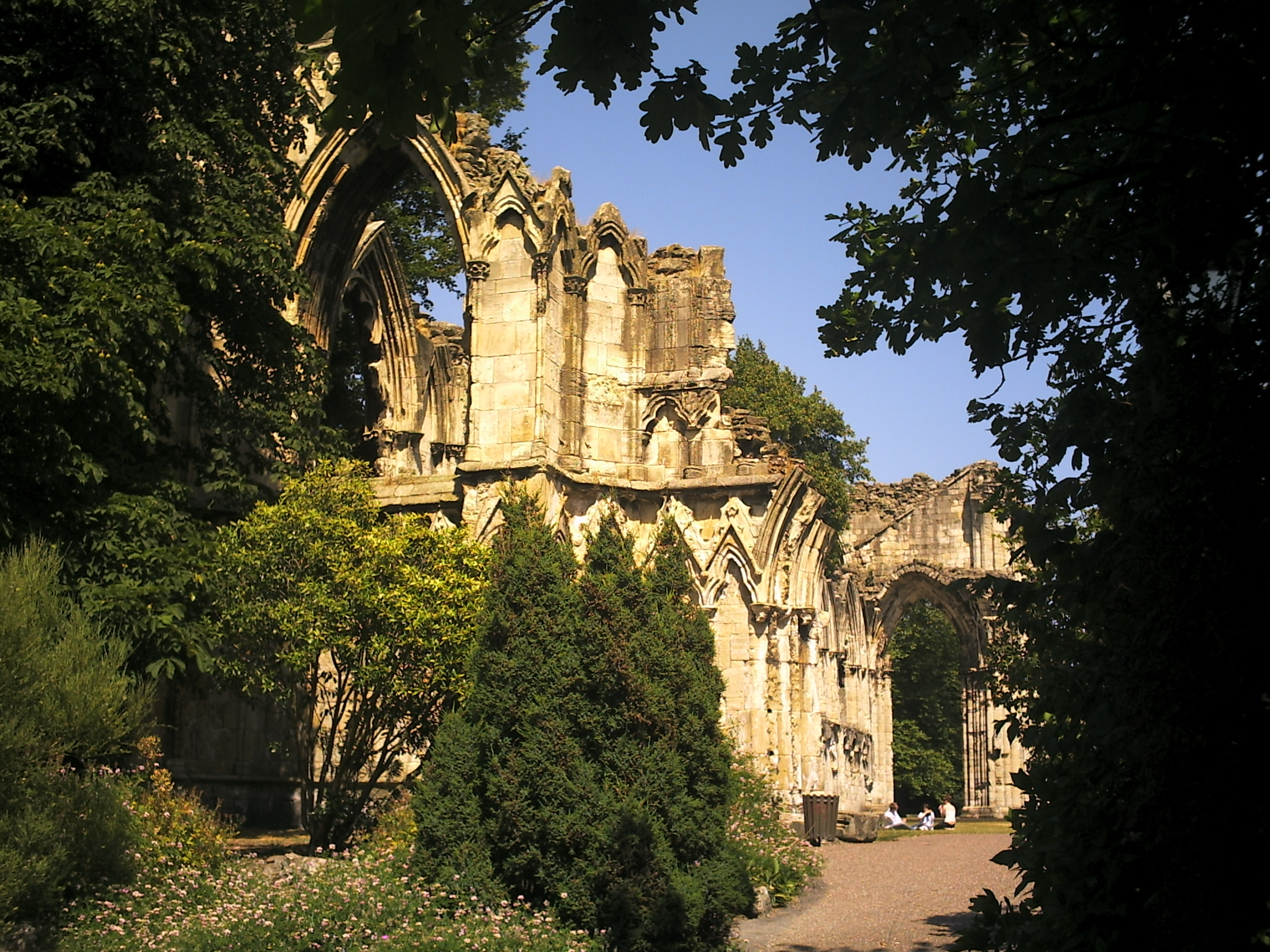 Source: Keir Gravil